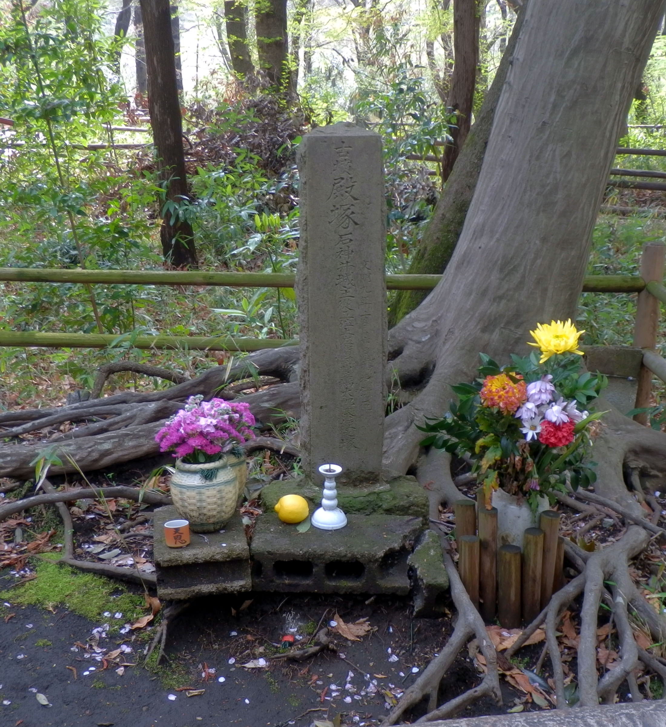 Tomb stone of Toshima Yasutsune (A samurai in 15th century of Japan)